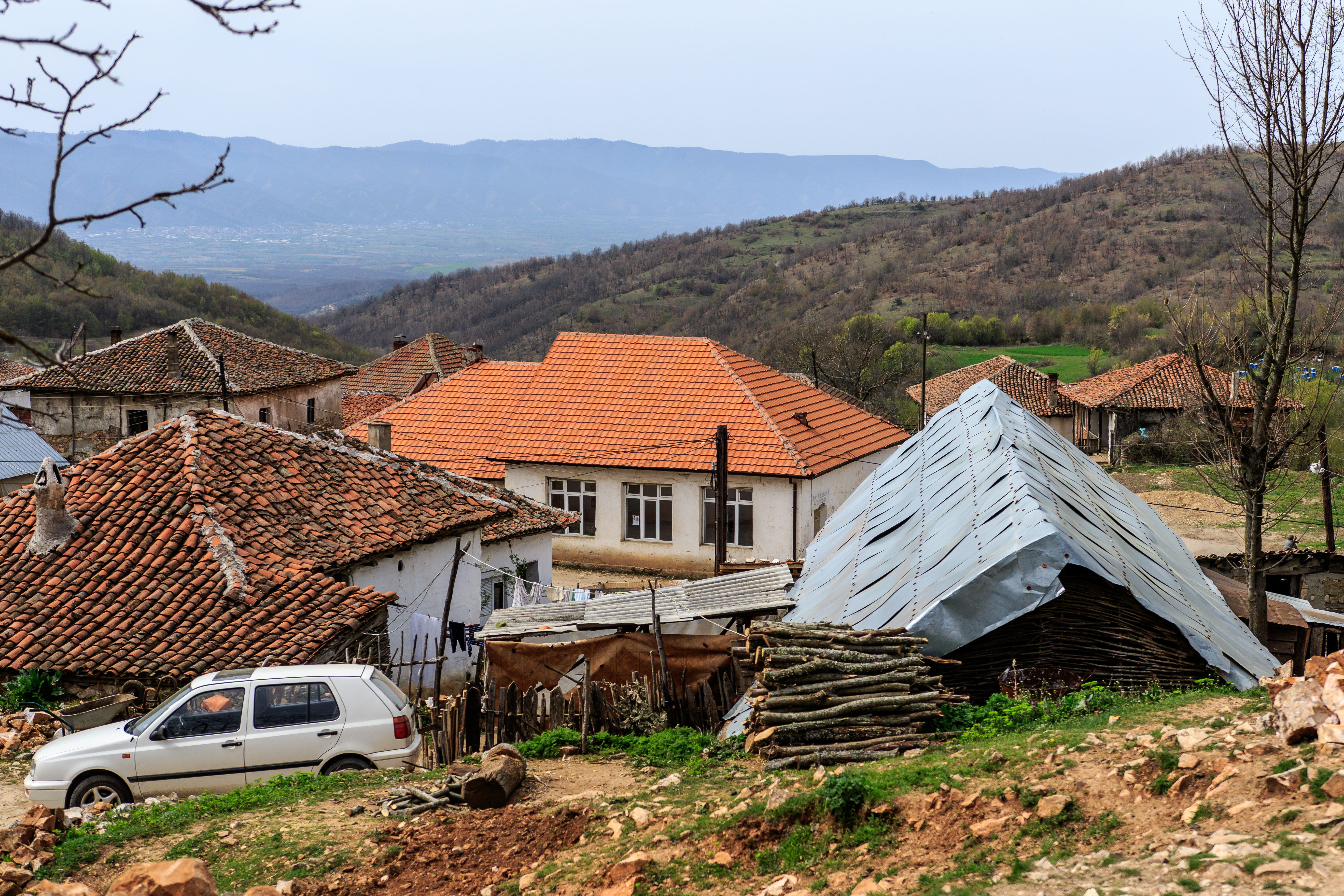 View of the primary school in the village Gorni Lipoviḱ